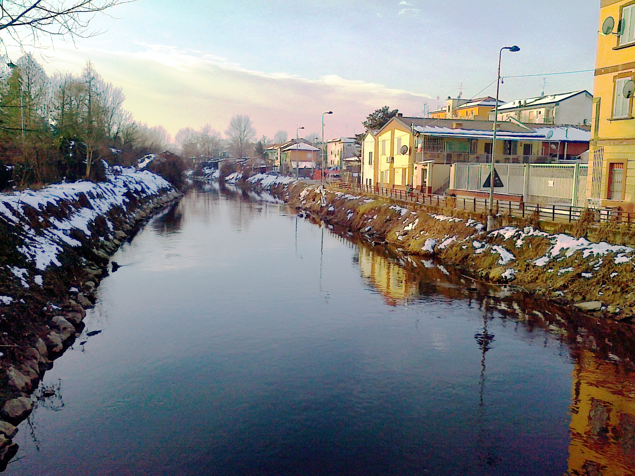 Lambro river at border of Ponte Lambro (Milano)